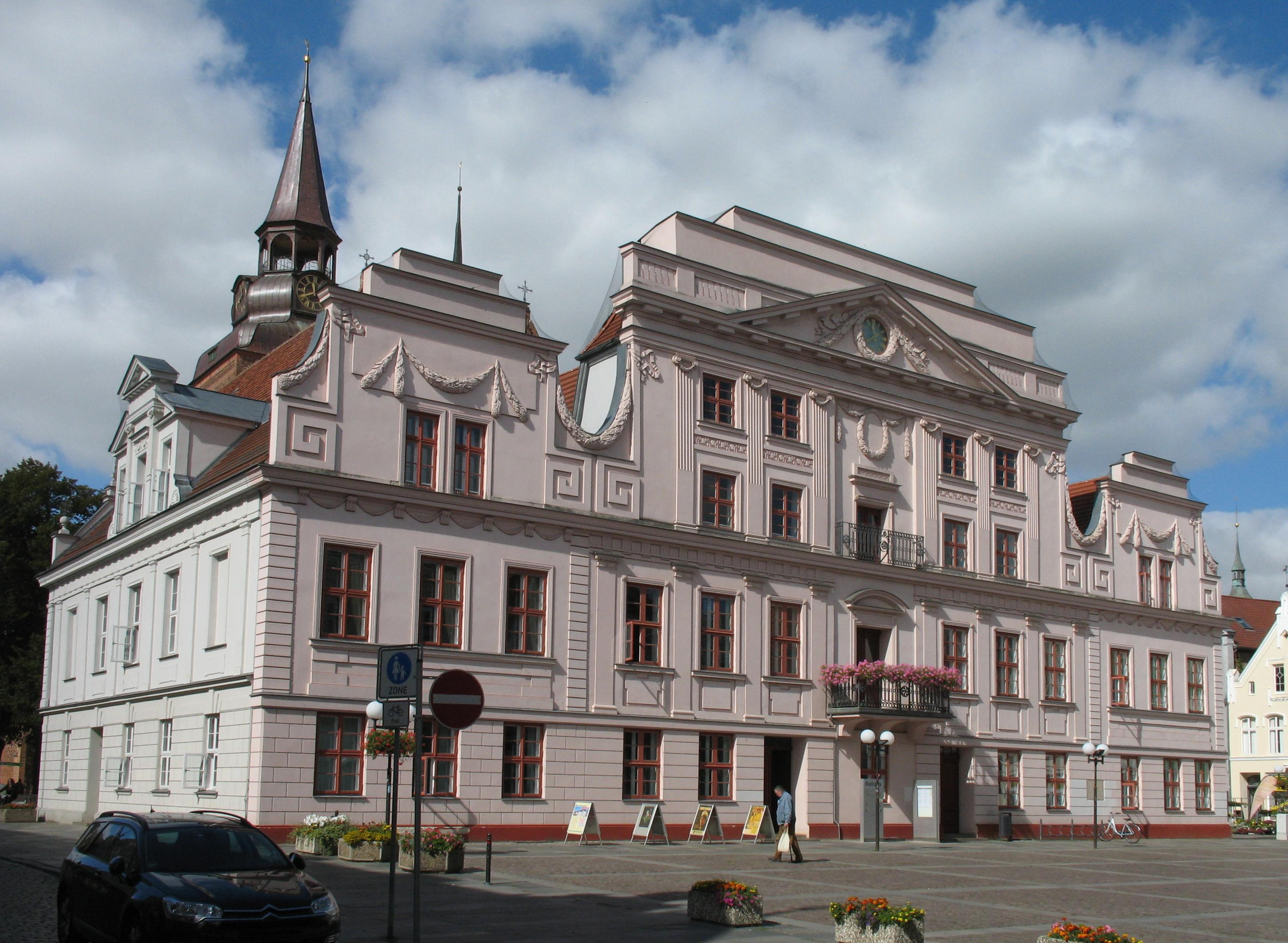 Town hall in Güstrow in Mecklenburg-Western Pomerania, Germany